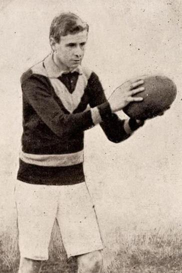 Photograph of Frank Kerr from the 1910 Weekly Times Victorian Footballer Postcard Series